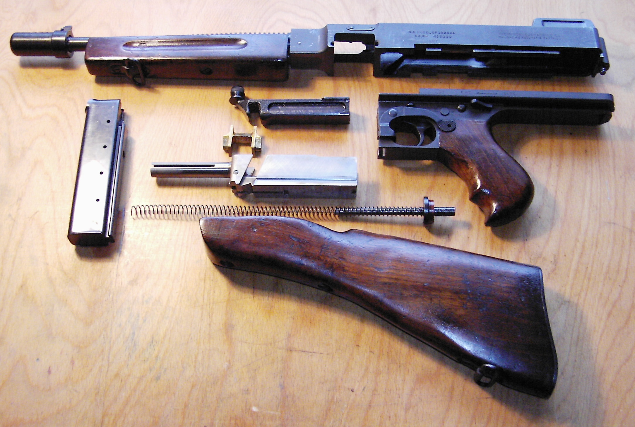 Thompson Submachine Gun, Model of 1928A1